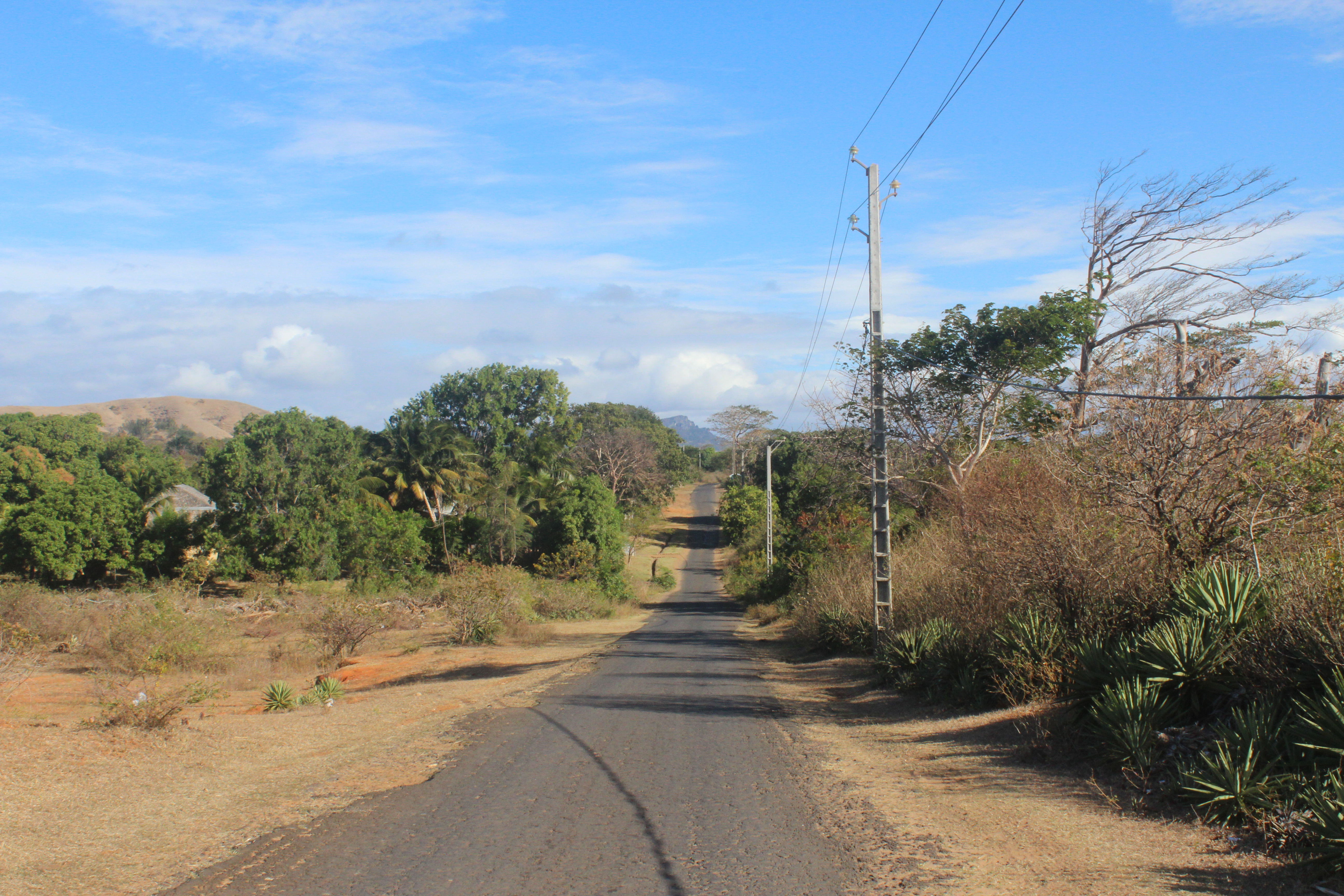 Route nationale 59b (Madagascar) at km 17.2, view to the South